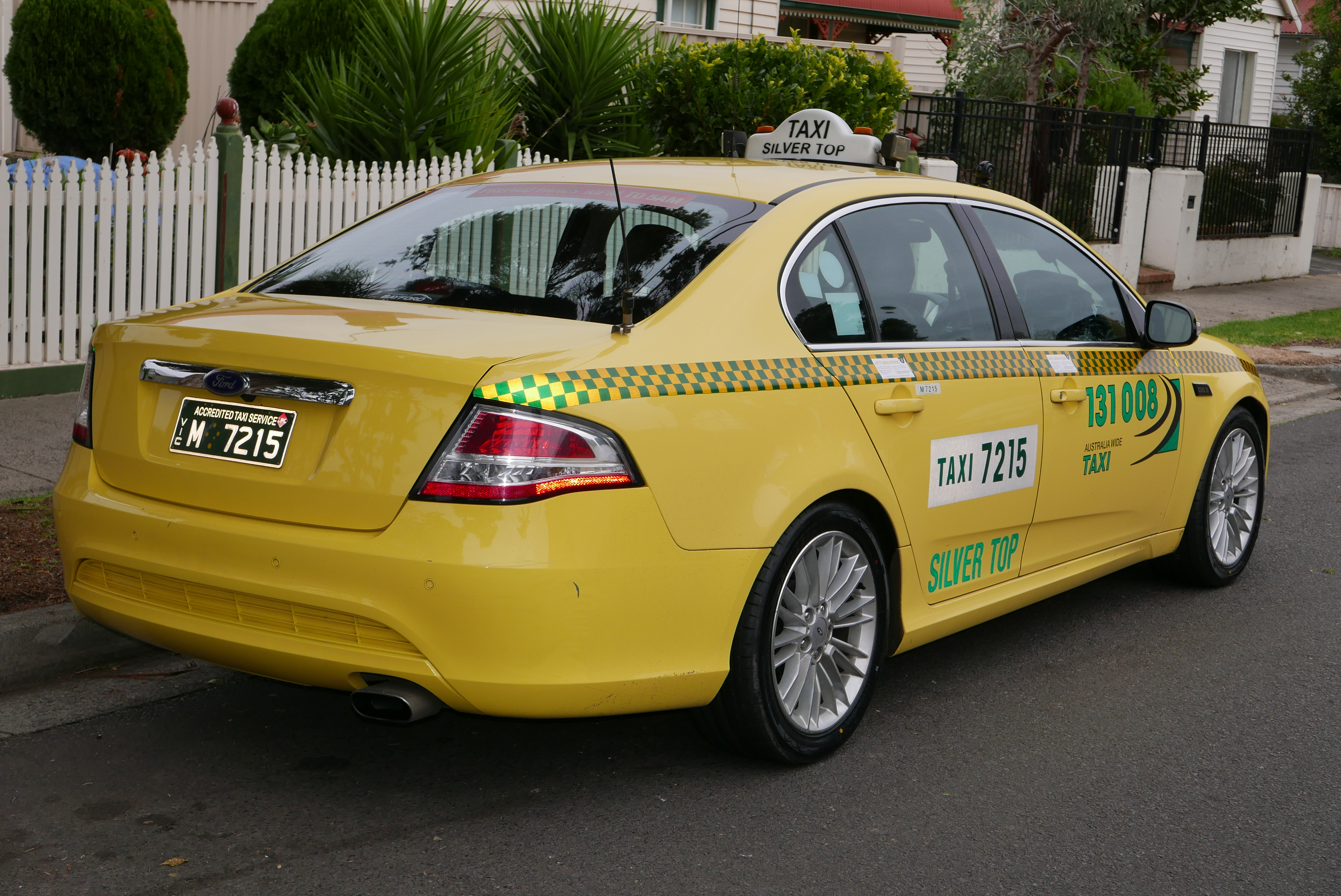 2013 Ford Falcon (FG II) G6E sedan, Silver Top taxi. Photographed in Coburg, Victoria, Australia. Vehicle registration enquiry resultsJurisdictionVictoriaRegistrationM7215Chassis code6FPAAAJGSWDA39631Engine codeJGSWDA39631Compliance date2013-07Year of manufacture2013